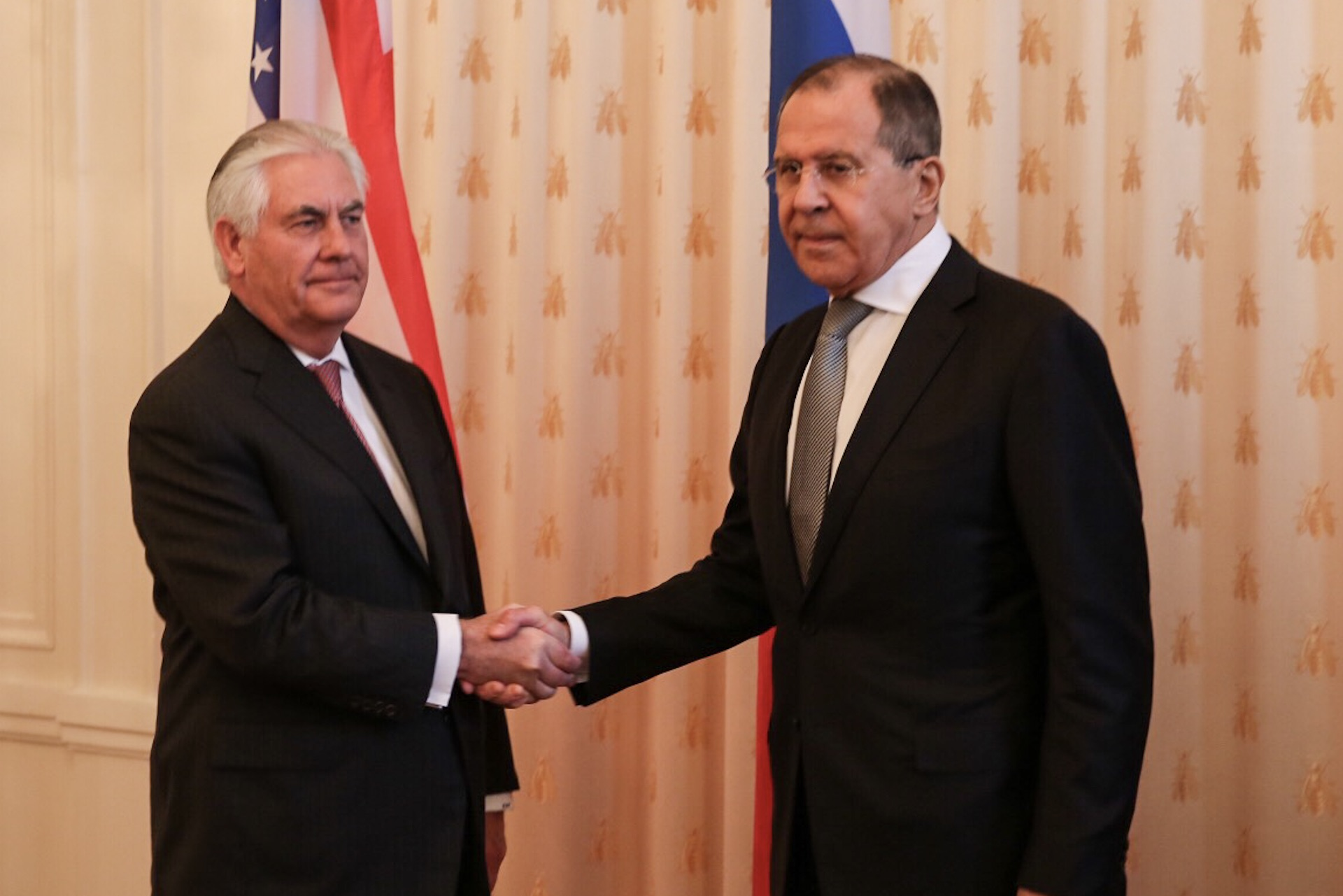 U.S. Secretary of State Rex Tillerson shakes hands with Russian Foreign Minister Lavrov ahead of their bilateral meeting in Moscow, Russia, on April 12, 2017. [State Department photo/ Public Domain]